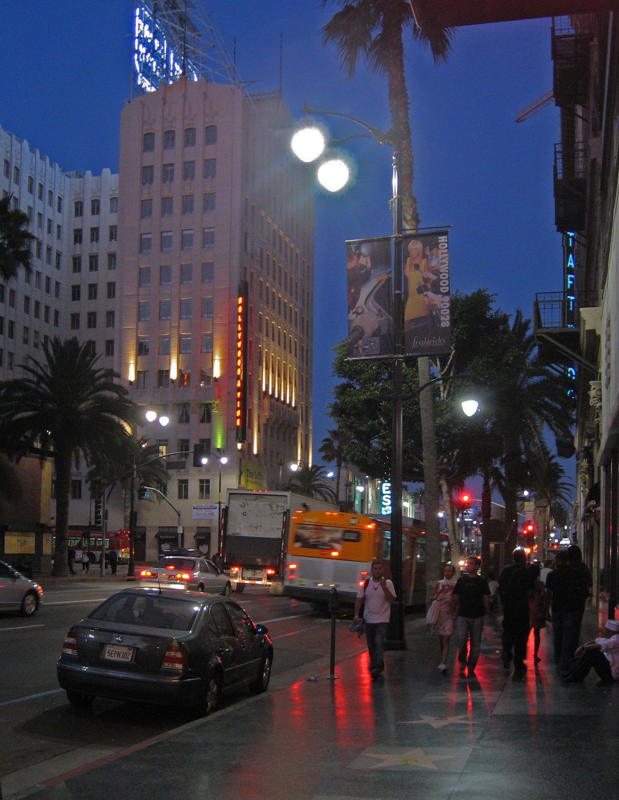 The Hollywood Walk of Fame near Vine Stret at night.